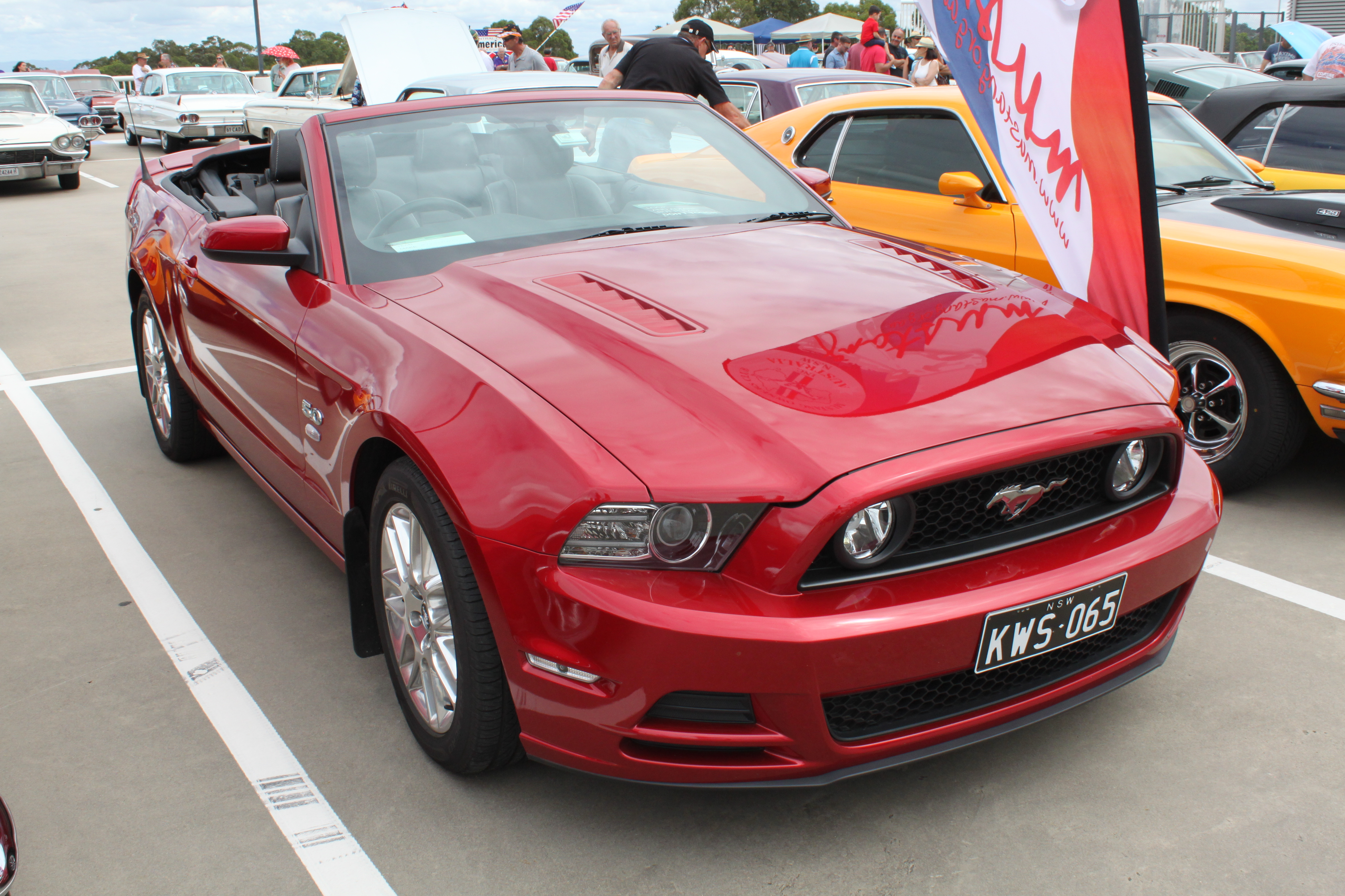 All American Car Show, Castle Hill, NSW January 2016